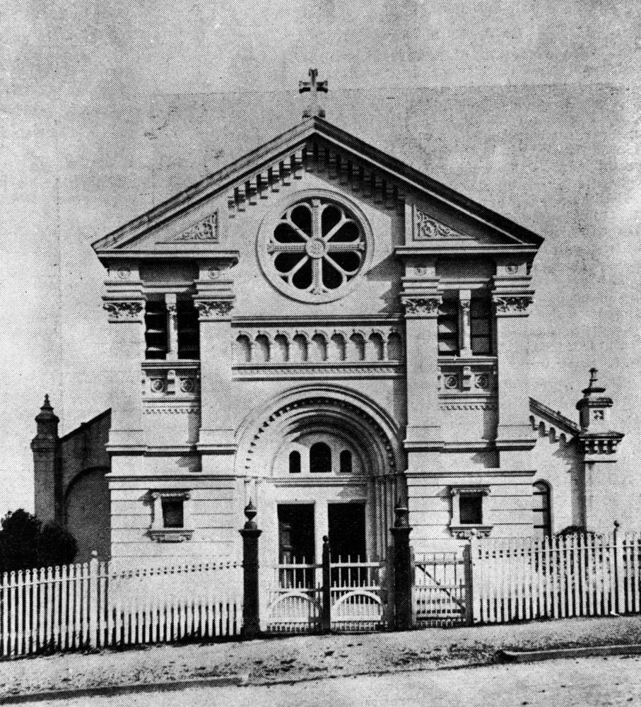 St. Mary's Catholic Church at South Brisbane, 1900. Situated in Peel Street, St. Mary's was erected in 1892/3. The foundation stone was laid by Cardinal Moran on 24 September 1892, and the church was dedicated on 2 July 1893 by Archbishop Dunne. (Description supplied with photograph).